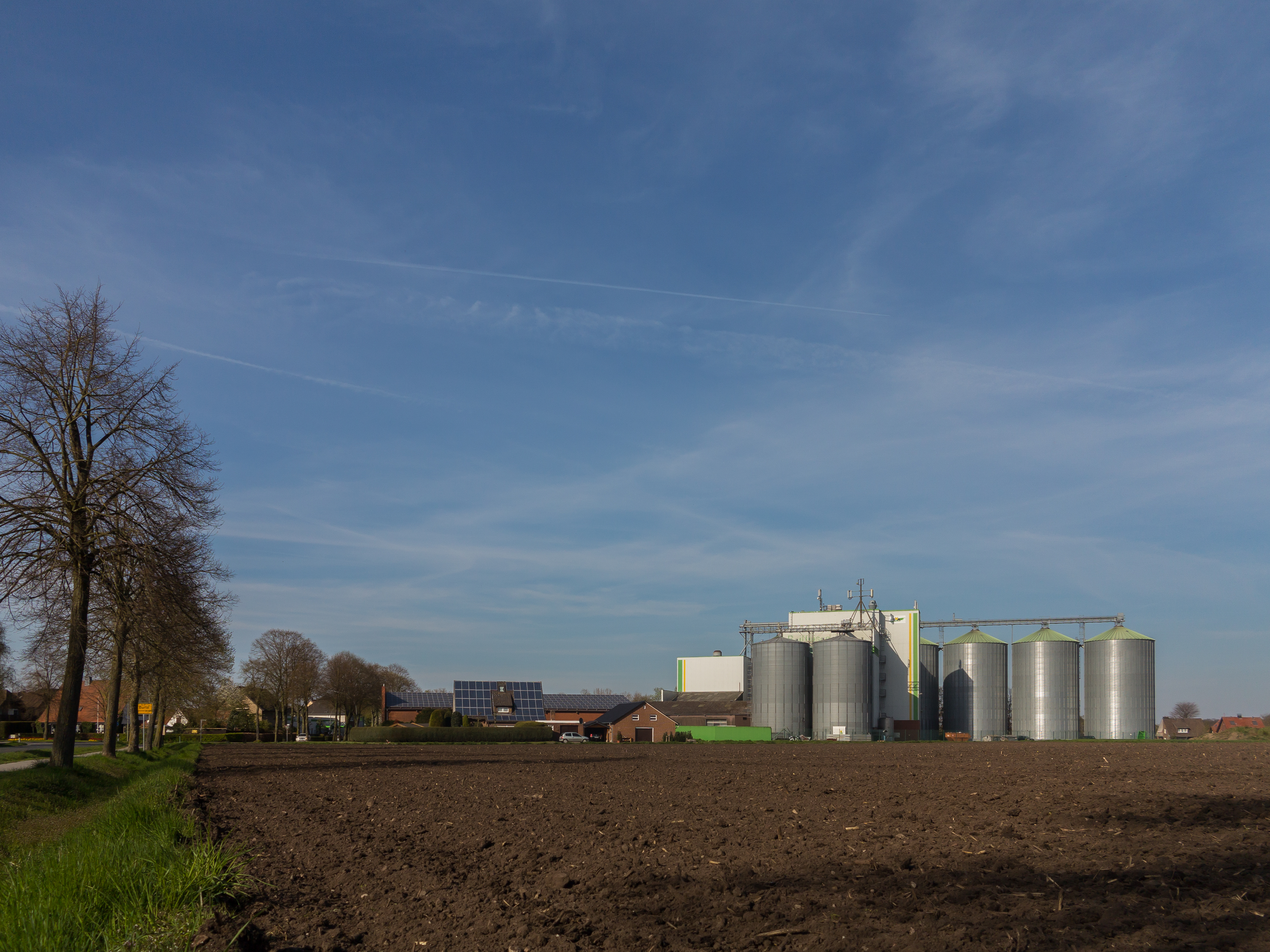 Burlo, agricultural company